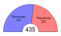 110th (2007-2009) US House composition. Made with ADSVote 1.1 beta